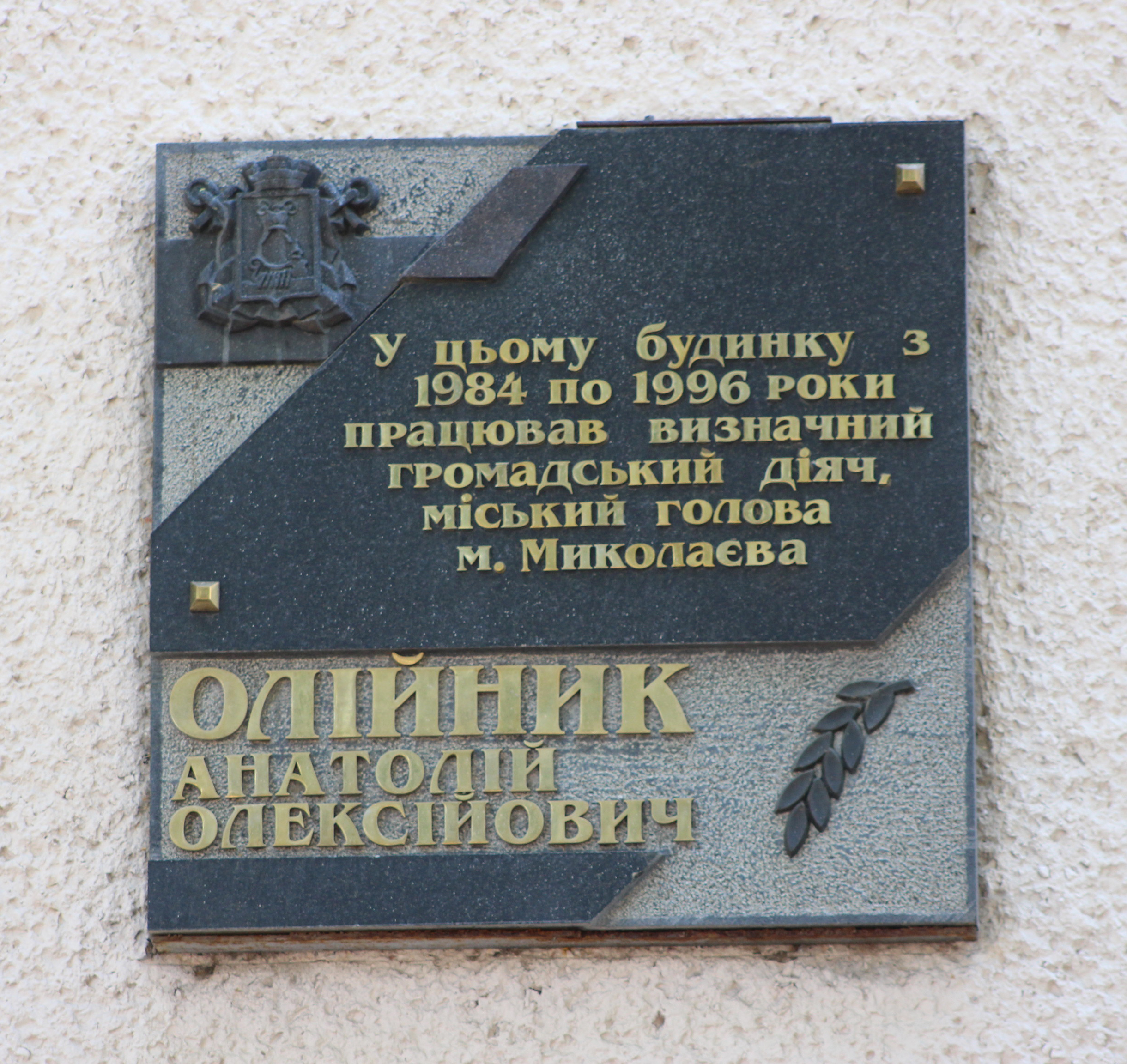 Memorial to Anatoliy Olijnik